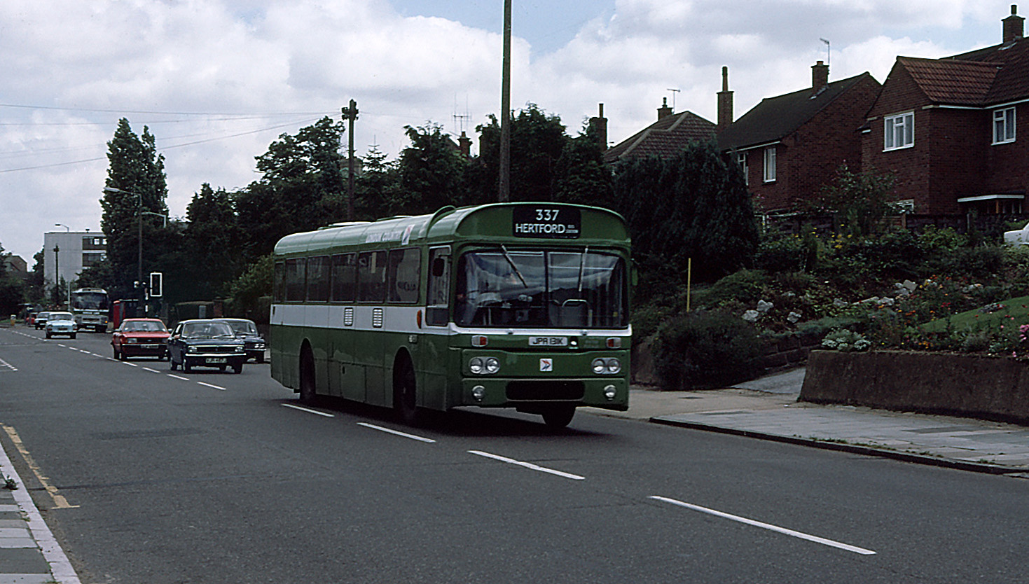 Ware Road, Hertford Looking along the A119 towards the Police Station from near to the junction with Fairfax Road. The houses along the south side of the road are set back with long front gardens and raised above street level. A London Country AEC Reliance with Park Royal body makes its way into Hertford on the 337 service from Buntingford via Standon, Puckeridge Wadesmill and Ware. This class of vehicles, the RP's, were introduced in 1972 to replace Routemaster coaches on London Country's Green Line express routes. But by 1979 when this photo was taken they were being displaced by coach bodied reliances like the one seen in the distance. This particular vehicle - RP31 - is quite rare as it was one of only three of the 90 strong type to be repainted in National Bus Company bus livery.